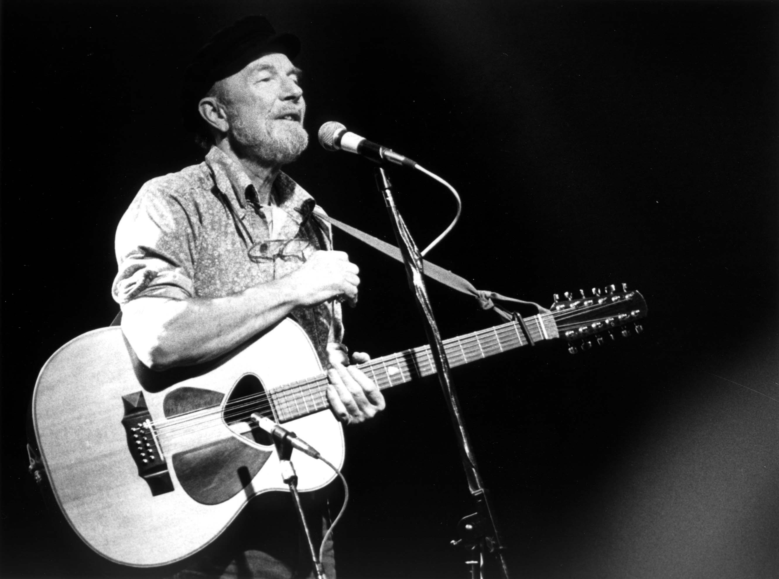 Pete Seeger concert photo b&w